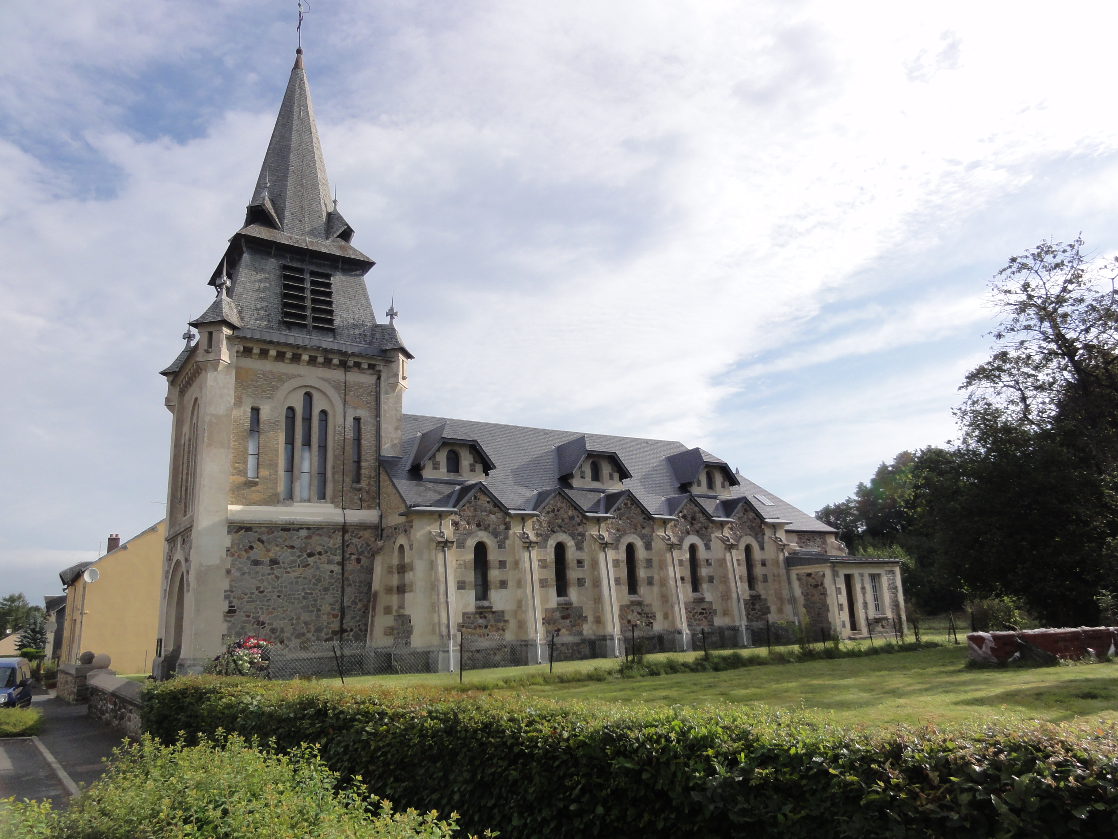 Gué-d'Hossus (Ardennes) église, vue du sud-ouest